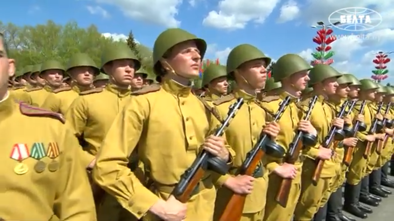 параде в ознаменование 75-й годовщины Великой Победы